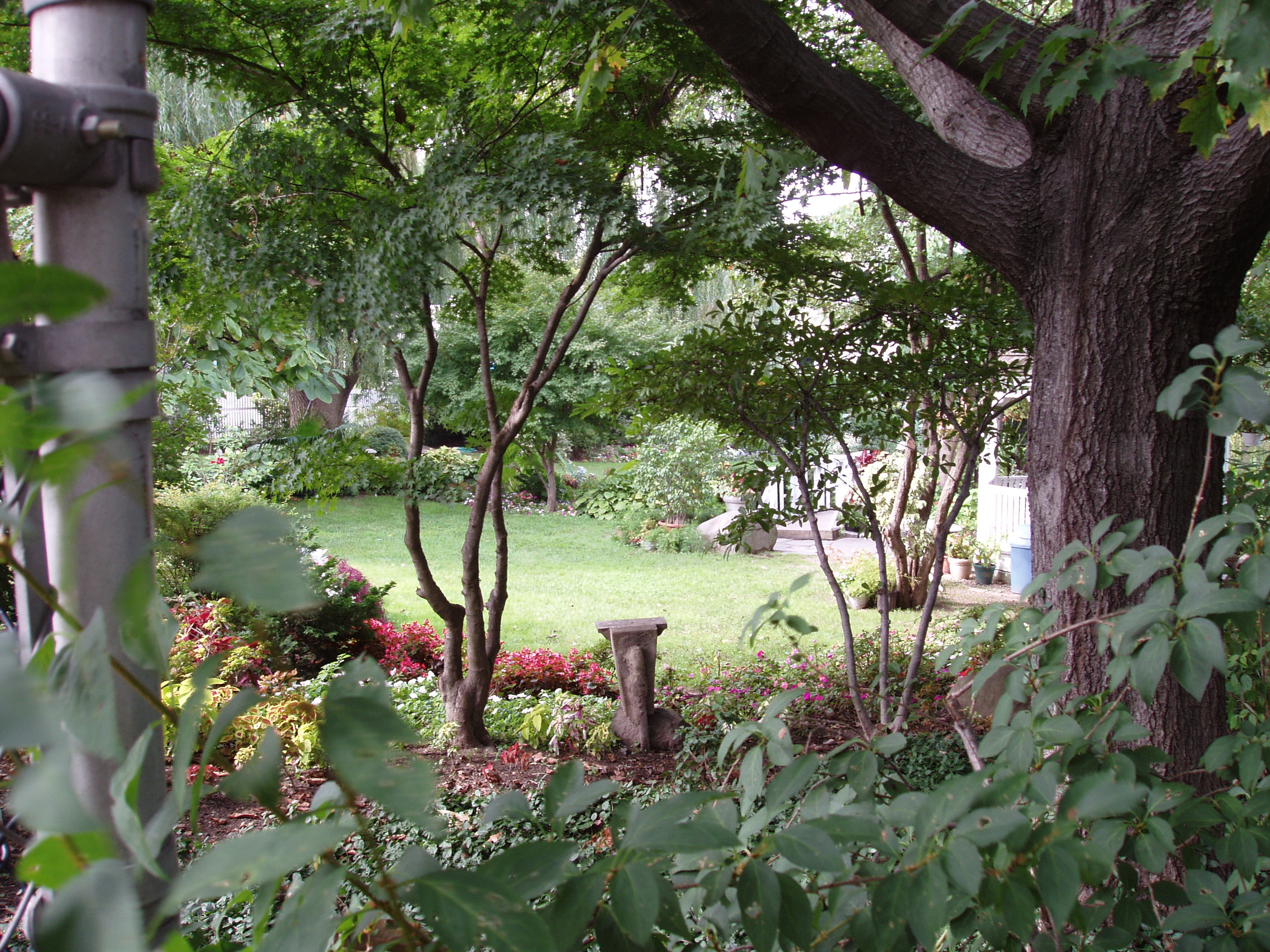 Queens,NY Taken October 9, 2004 Stephen Dore